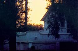 The house in this picture appears a light cream color during the day, but looks a bluish white here, just after dawn. This is a picture I shot myself using a Nikon FM2 with a Tamrom 35-70 mm zoom lens and Kodak Max Versatility Film. I release this picture into the public domain; you may not claim you took this photo yourself, but you do not need my permission to use it in any other way for any reason. --KQ 20:10 Aug 18, 2002 (PDT)